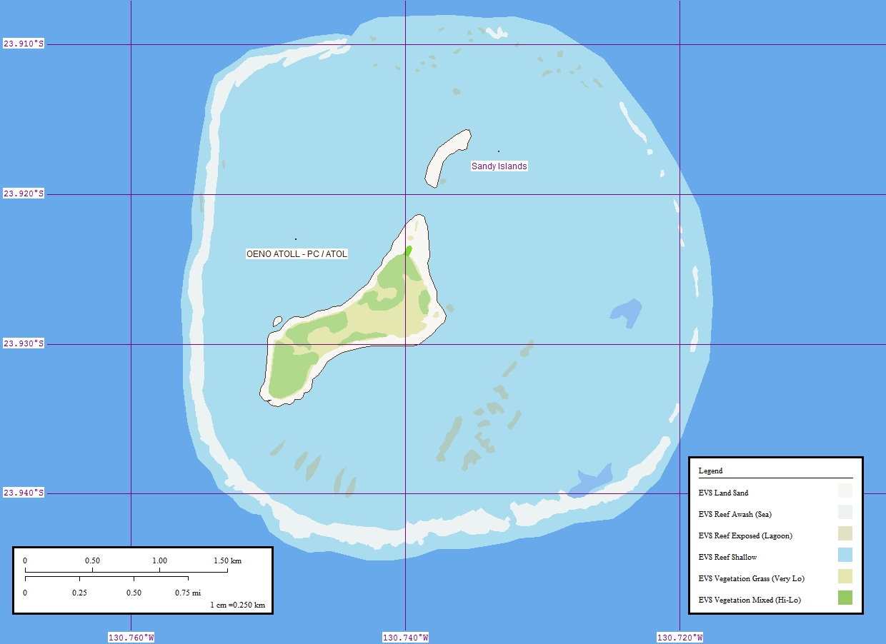 Map of Oeno Atoll (Pitcairn Islands) in the Pacific Ocean